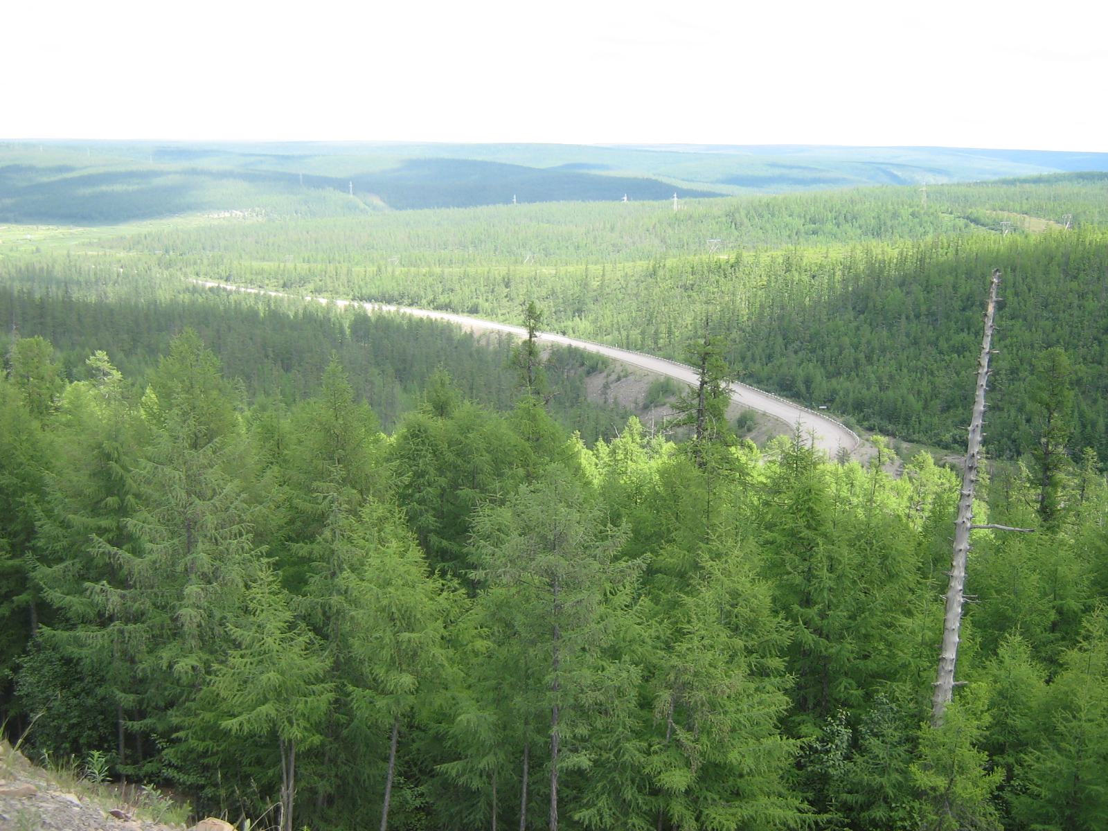 Larix gmelinii taiga by road M56 "Lena", Neryungrinskiy Rayon, Sakha, Russia